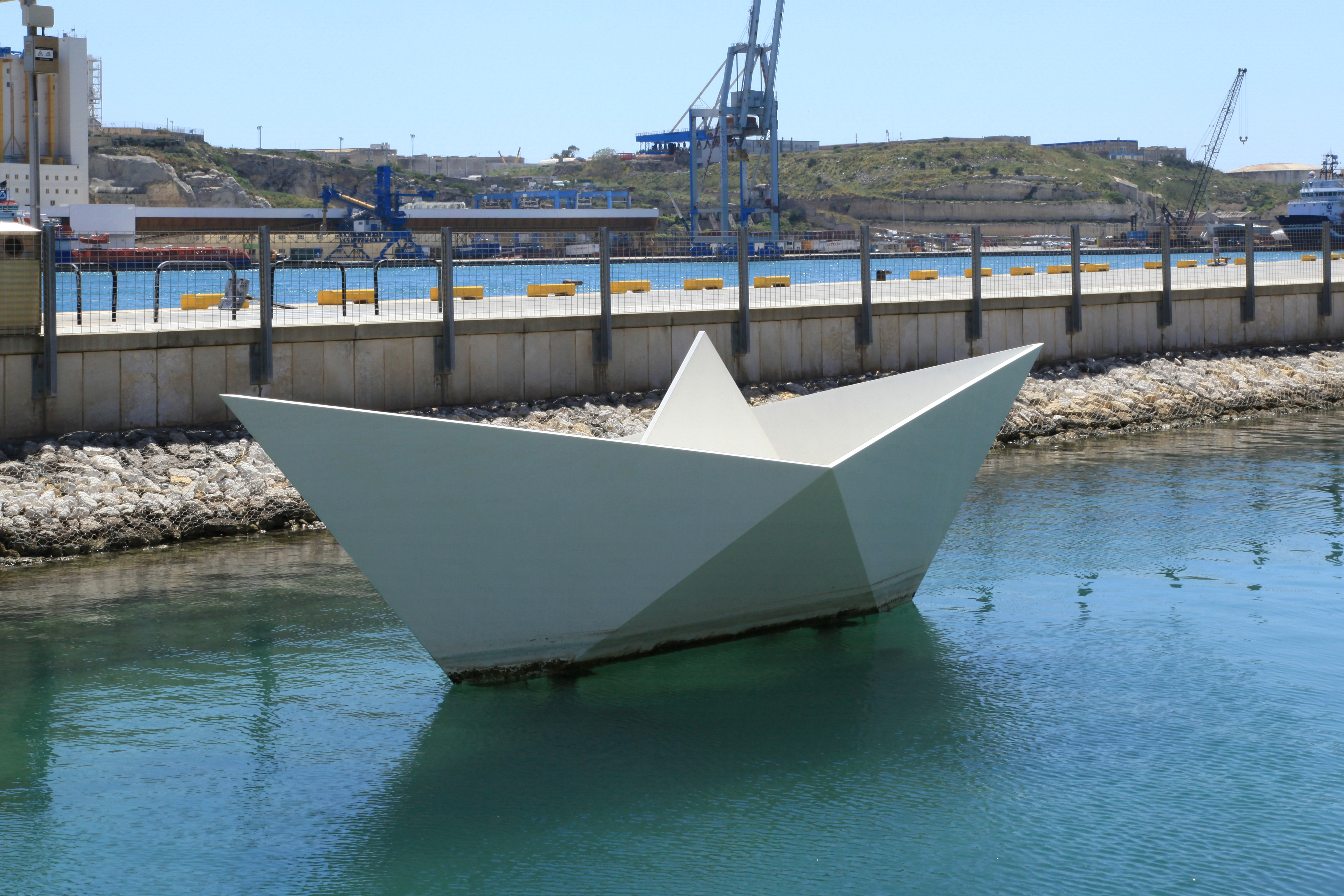 Child Migrants' Memorial, Laguna Marina at Valletta Waterfront in Floriana, Malta